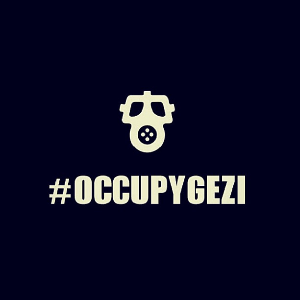 occupygezi